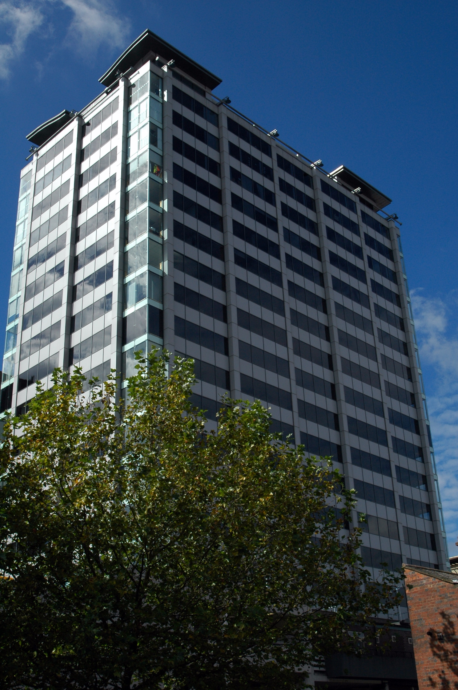 Quayside Tower built 1965 in Birmingham. Recently renovated. United Kingdom.